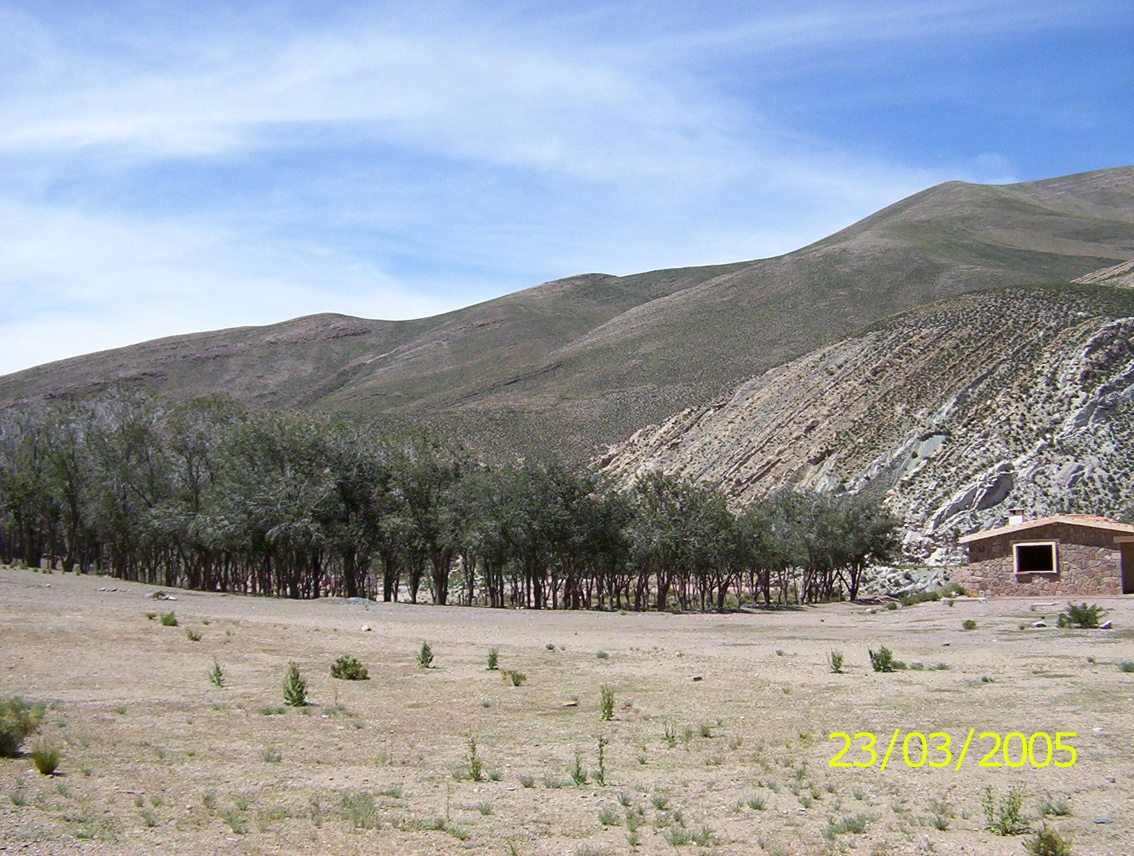 Habitat of Black siskin (Carduelis atrata), Place: Jujuy, Argentina